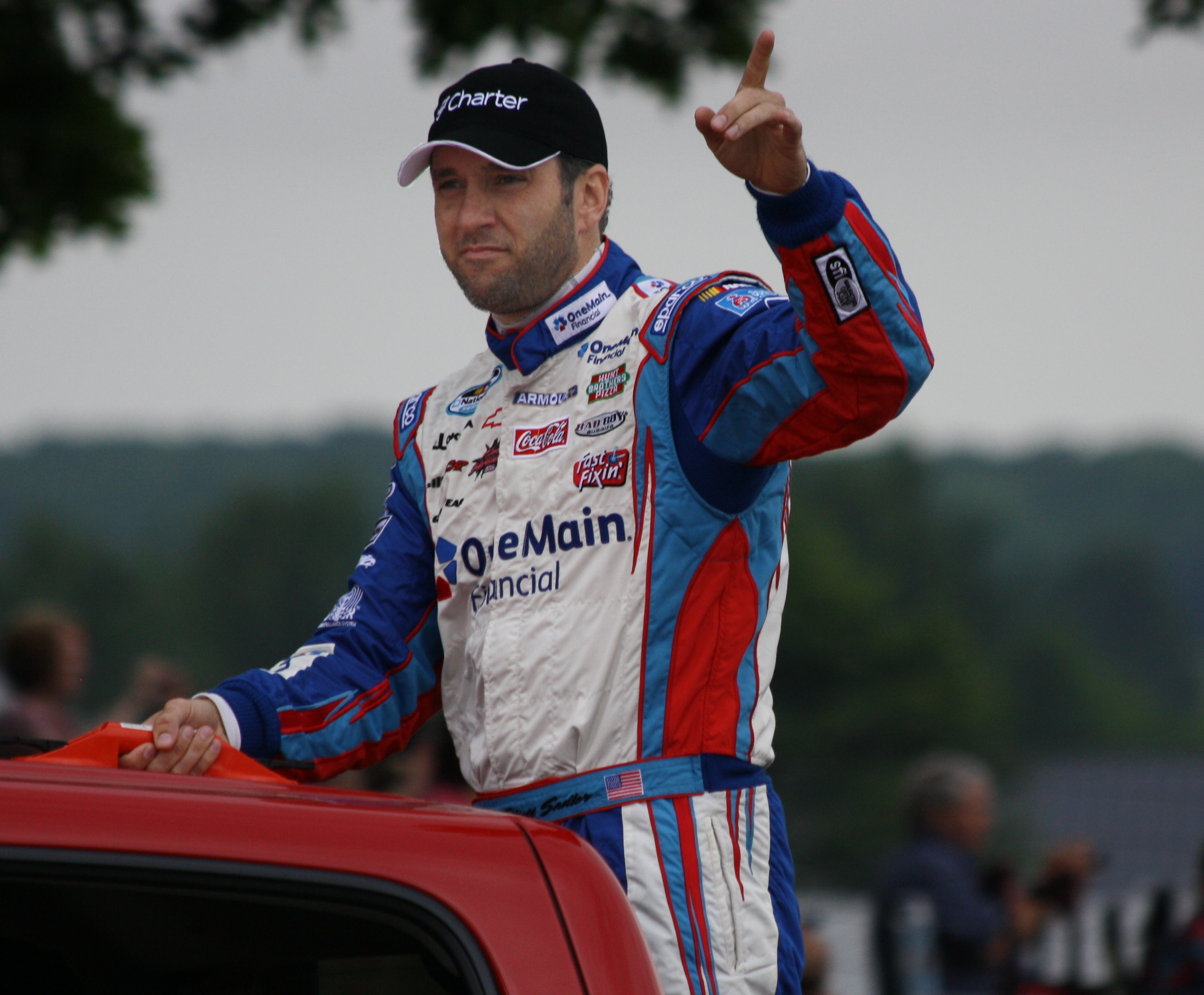 NASCAR driver Elliott Sadler during driver's introductions at the 2012 Sargento 200 Nationwide Series race at Road America.